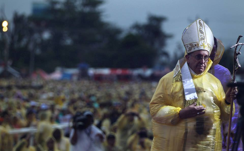 Pope Francis, wearing a yellow raincoat, celebrates mass amidst heavy rains and strong winds near the Tacloban Airport Saturday, January 17, 2015. After the mass, the Pope will visit Palo, Leyte to meet with families of typhoon Yolanda victims. The Pope visit to Leyte was shortened due to on going typhoon in the area.